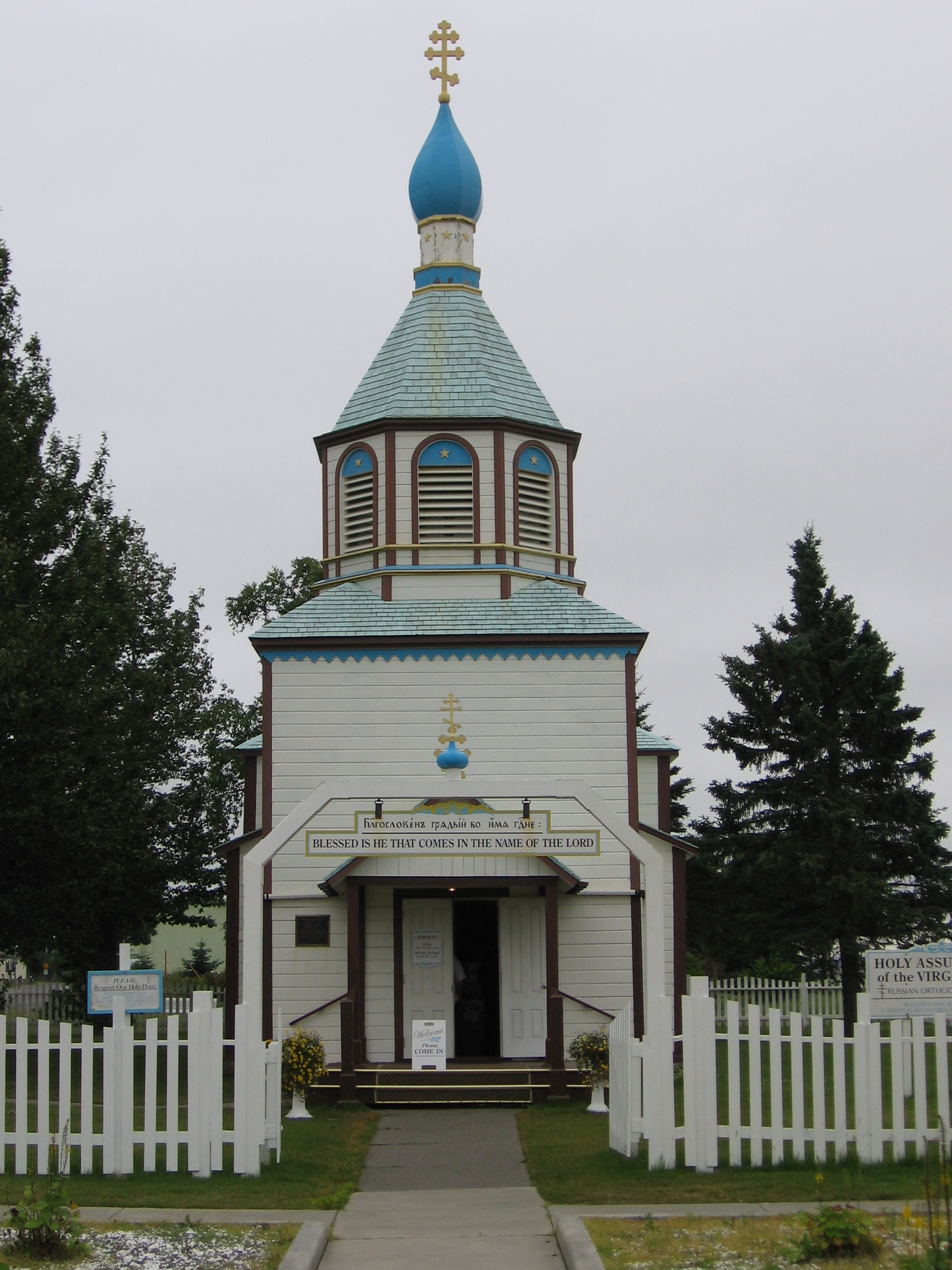 Taken by me Summer 2006. Holy Assumption Russian Orthodox Church in Kenai, Alaska.